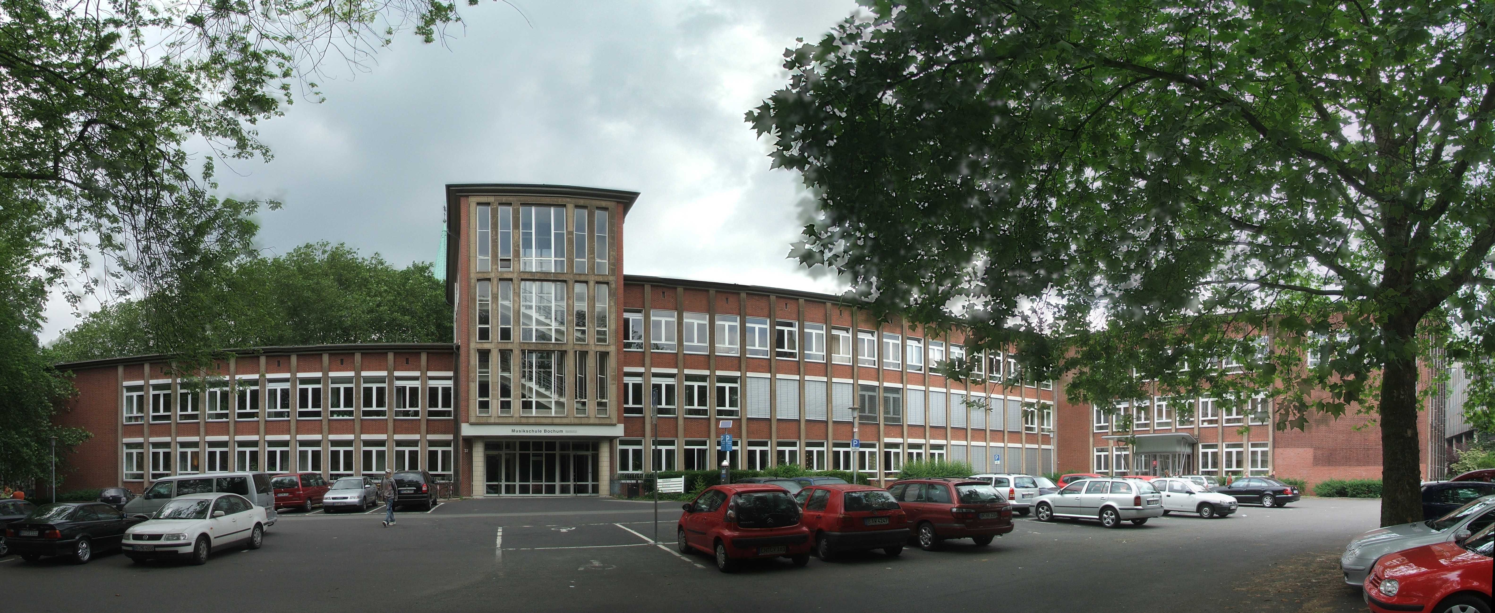 Musikschule Bochum, public music school